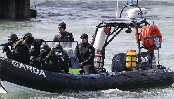 Free to use image, no copyright. Free use image of members of the Irish Garda Emergency Response Unit (ERU) conducting ant-terrorism maritime operations on the River Liffey, Ireland (training exercise with the Garda Water Unit).